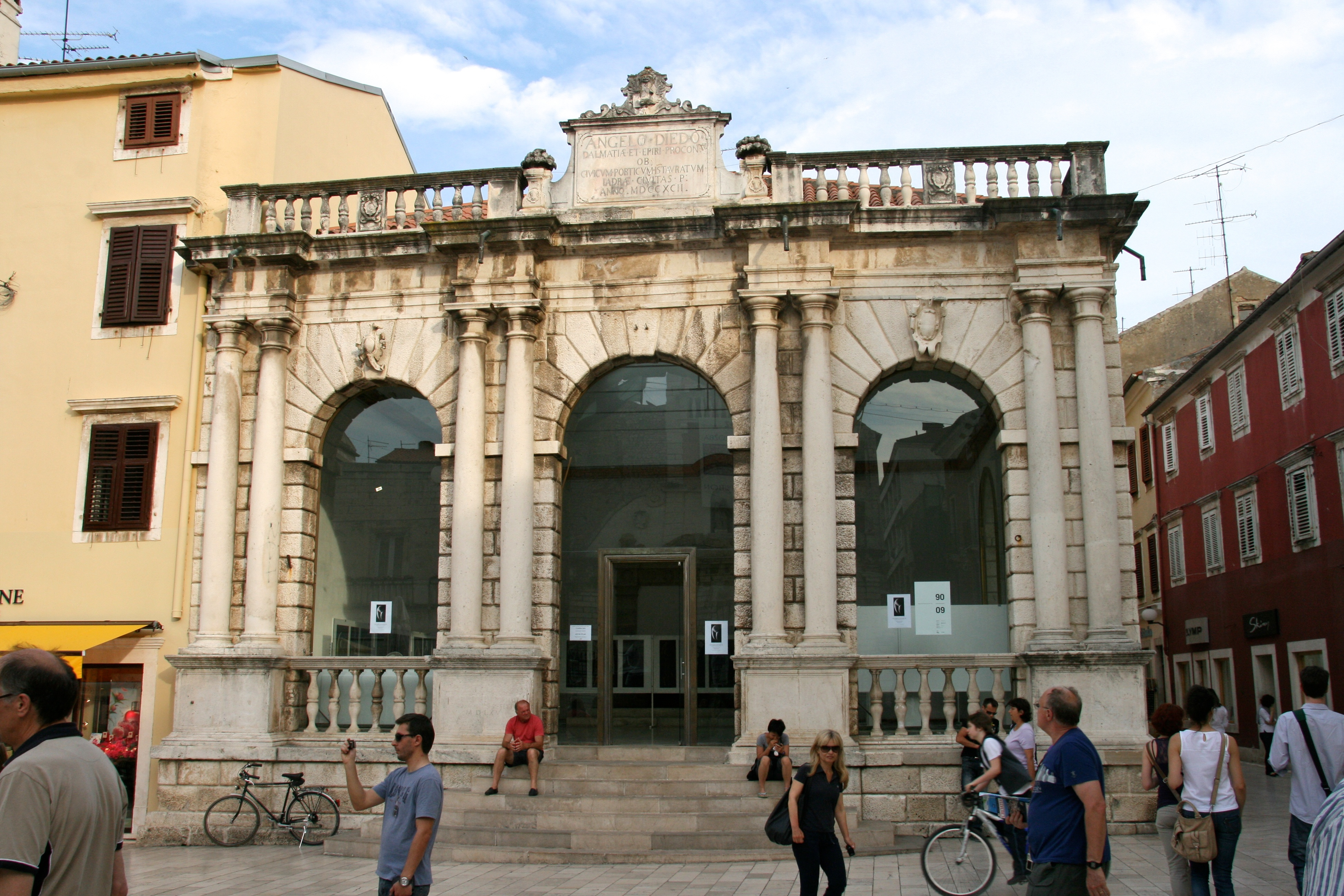 The Town Loggia ('Loggia del Comune'). Zadar, Croatia.